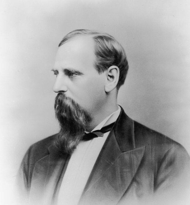 Photo of George W Emery, governor of the territory of Utah from 1875-1880.